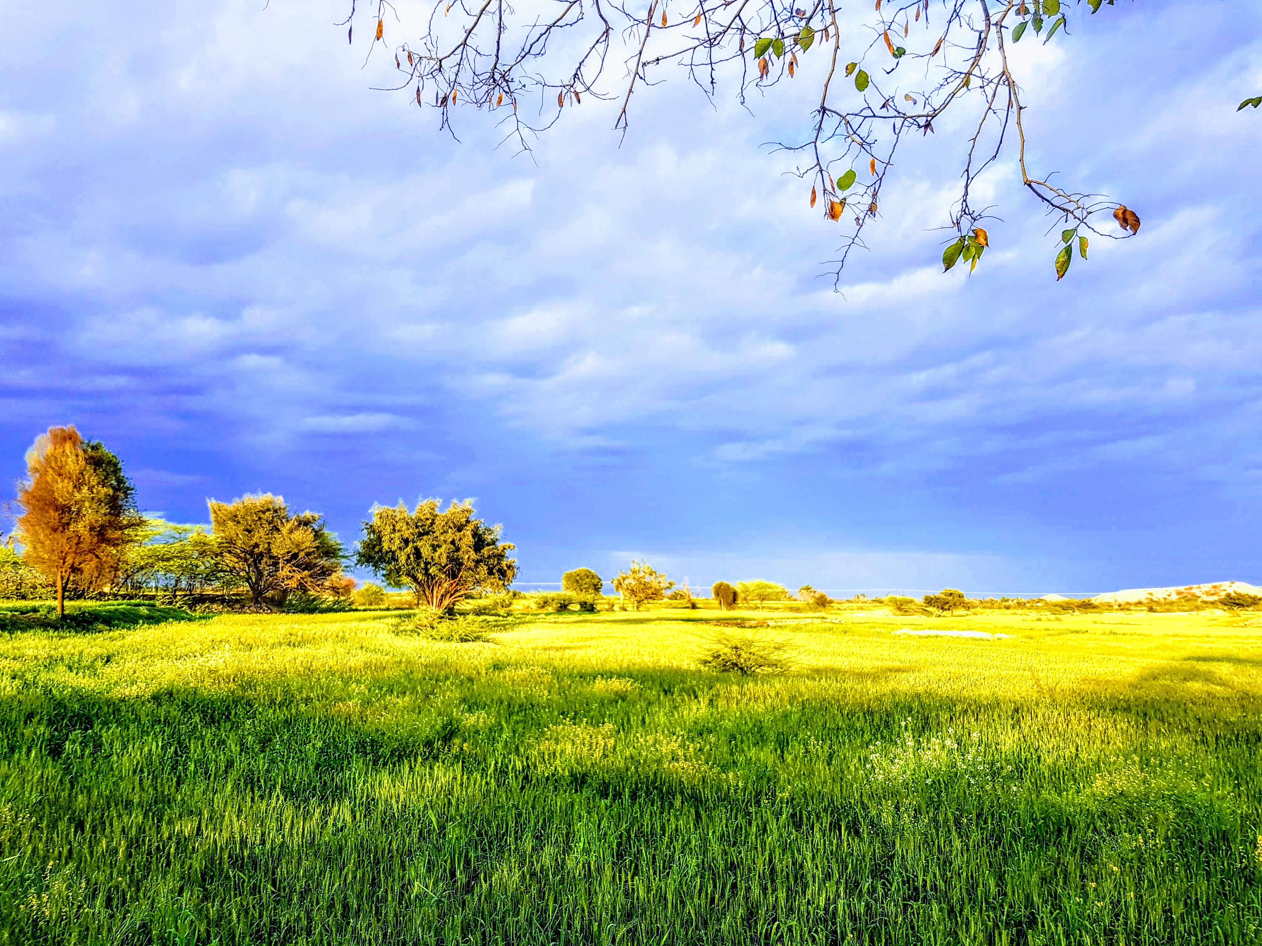 green fields in the east side of thamewali